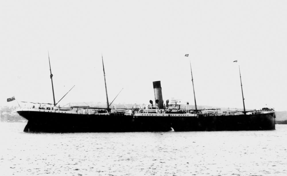 Medic (ship) Built 1899. 7857 tons. (Description supplied with photograph).